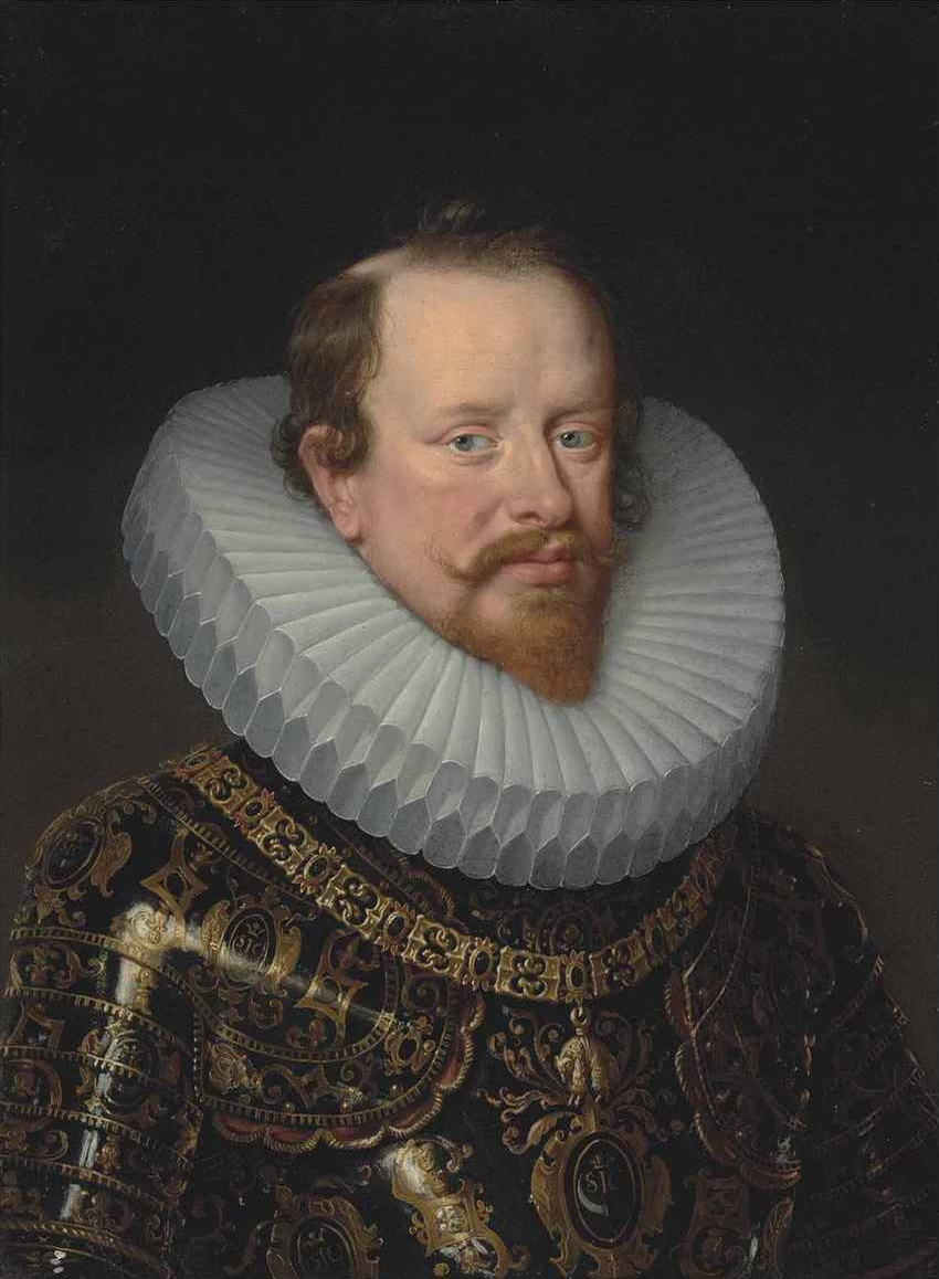 Portrait of Vincenzo I Gonzaga, Duke of Mantua, in ceremonial armour, wearing the livery collar of the Order of the Golden Fleece.